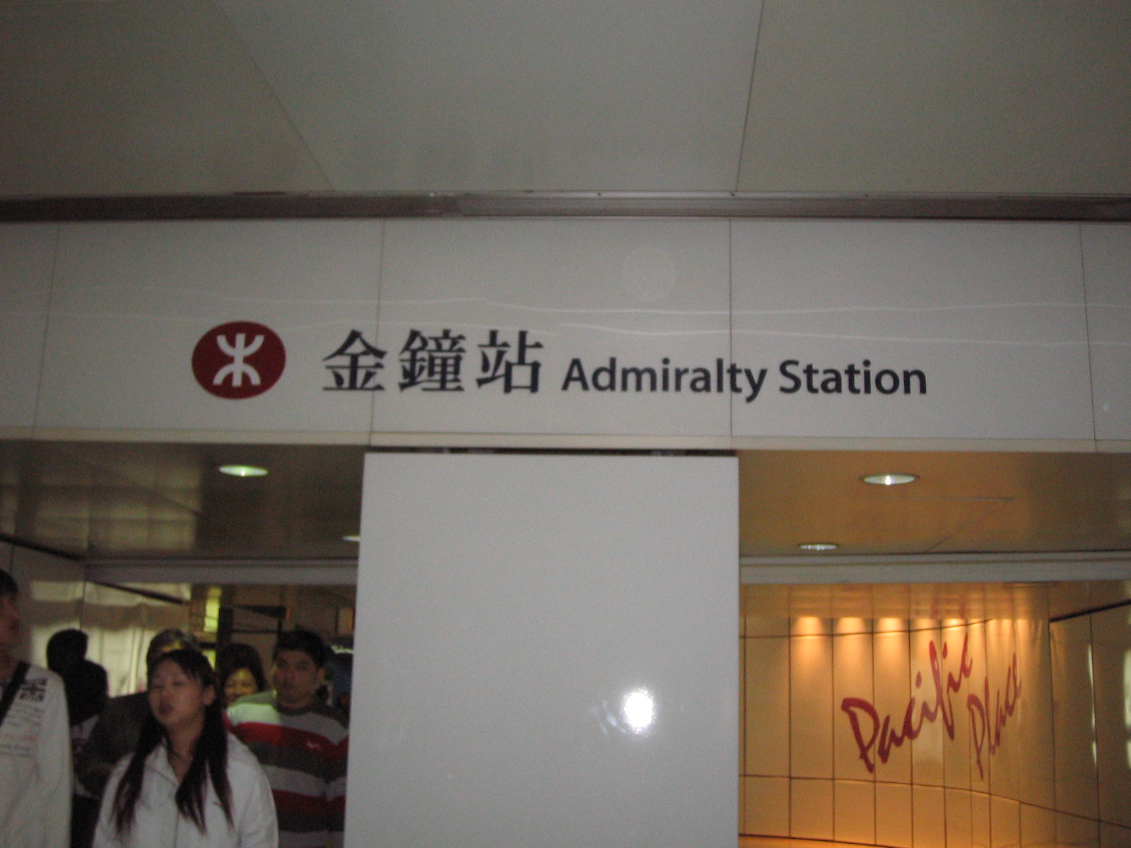 Pacific Place (F) exit to Admiralty MTR Station, Hong Kong.